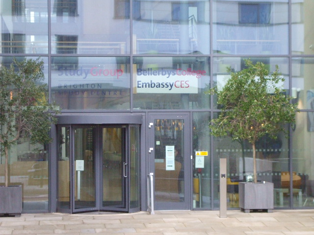 Study Group International (UK) HQ building in the New England Quarter, Brighton, East Sussex